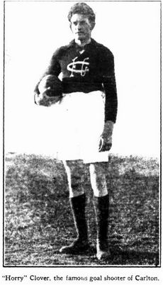 Photo of Horrie Clover in the Sporting Globe on 30 August 1922.